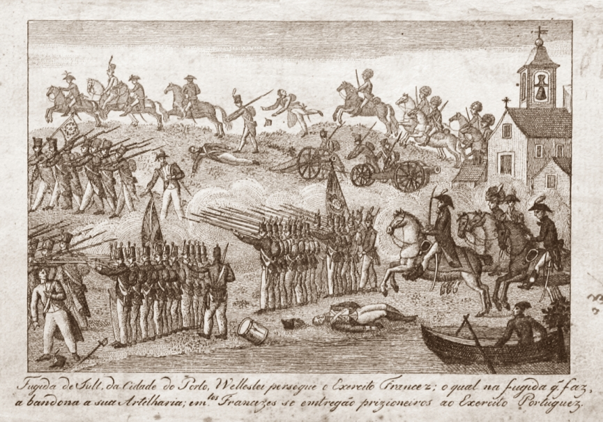 Representation of the withdrawal of French troops from Porto before the onslaught of Anglo-Luso army under the command of Wellesley. May 12, 1809. No indication of author.